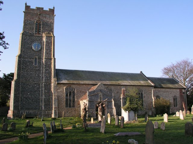 Tunstall church